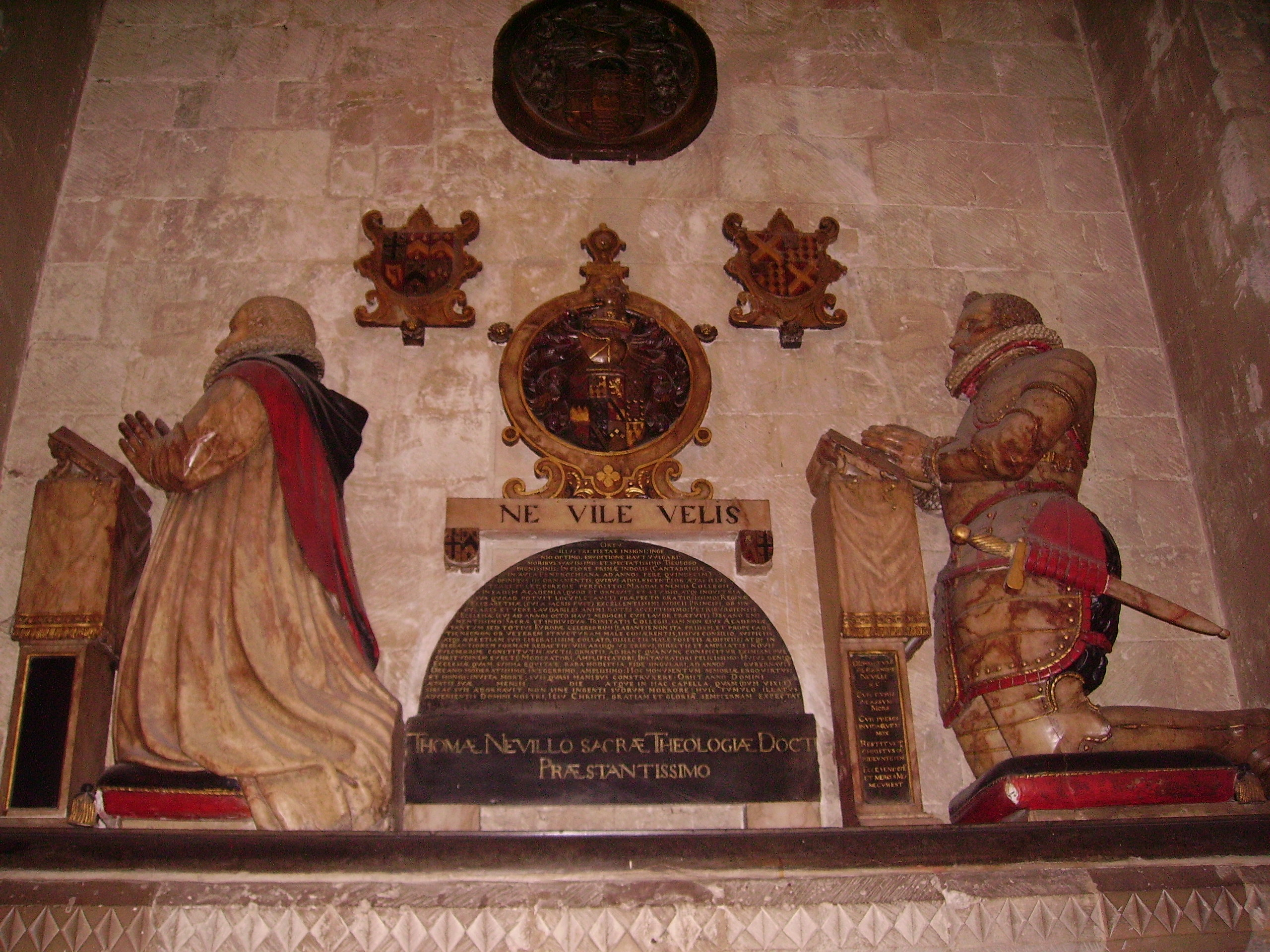 interior of Canterbury Cathedral in Canterbury, United Kingdom